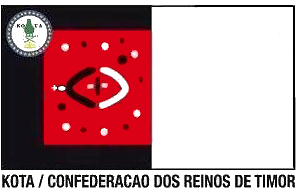 Flag of Klibur Oan Timor Asuwain KOTA